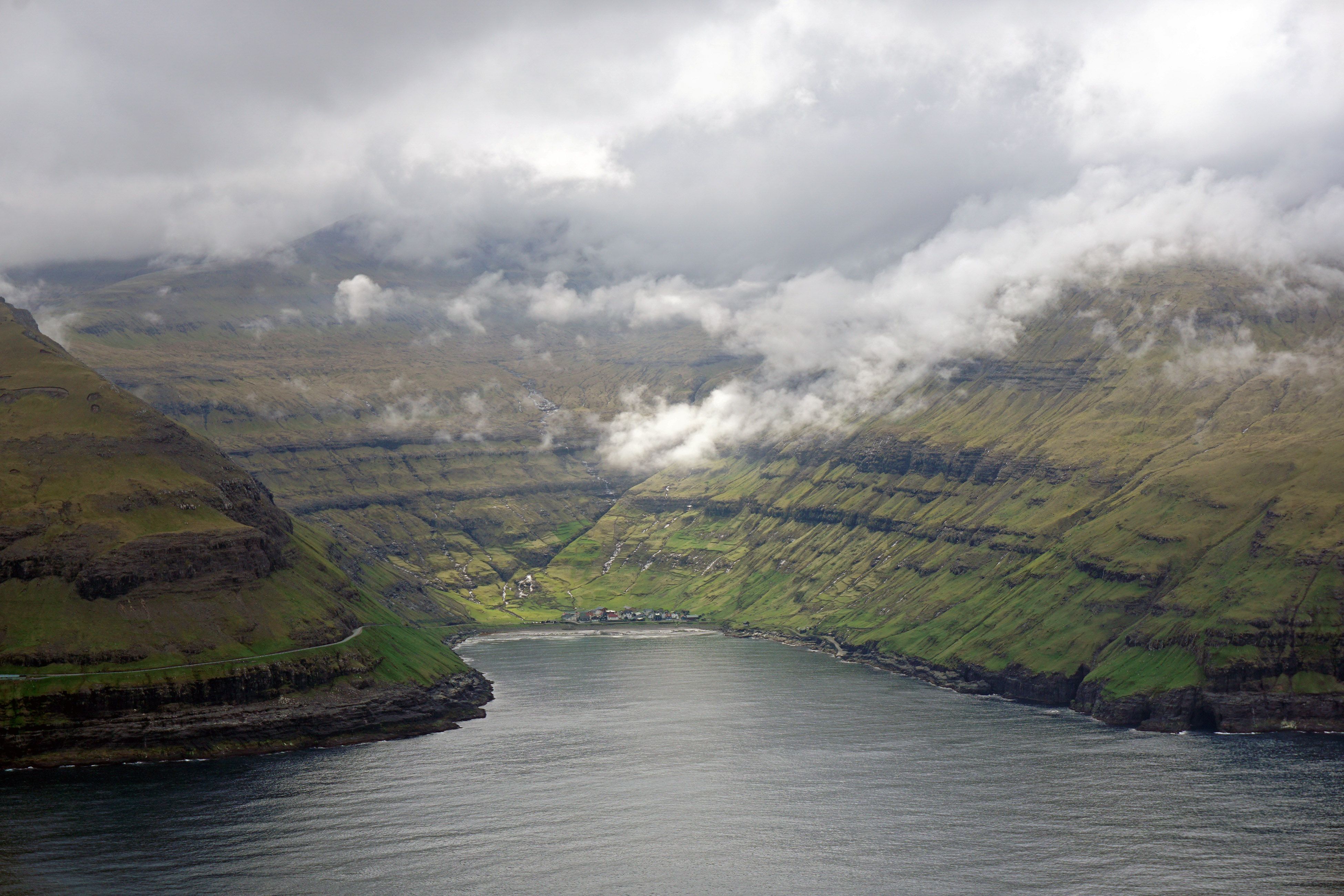 Tjornuvik seen from Eidiskollur.